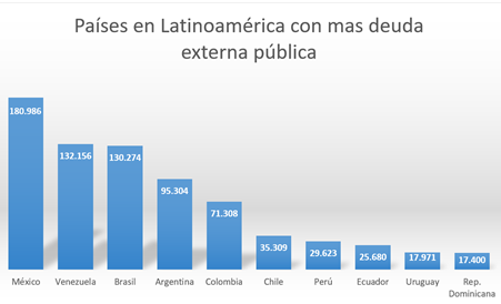 Países en Latinoamérica con mas deuda externa pública según la CEPAL